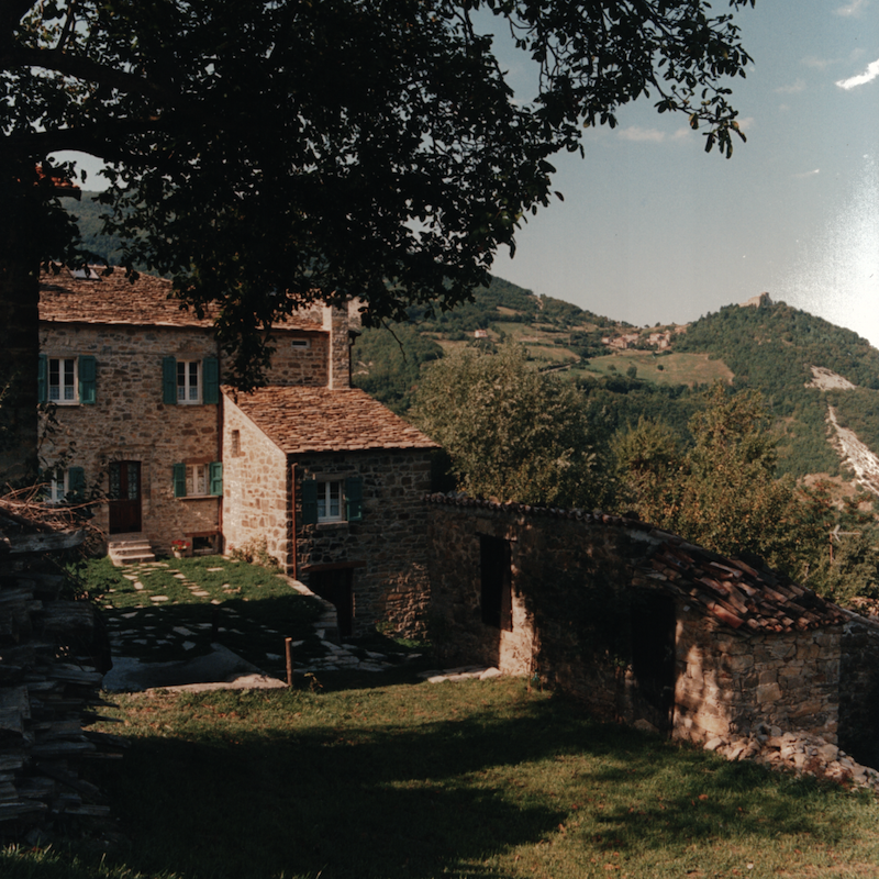 Stone building in Ravarano (Calestano - Parma - Italy), a historical mountain village